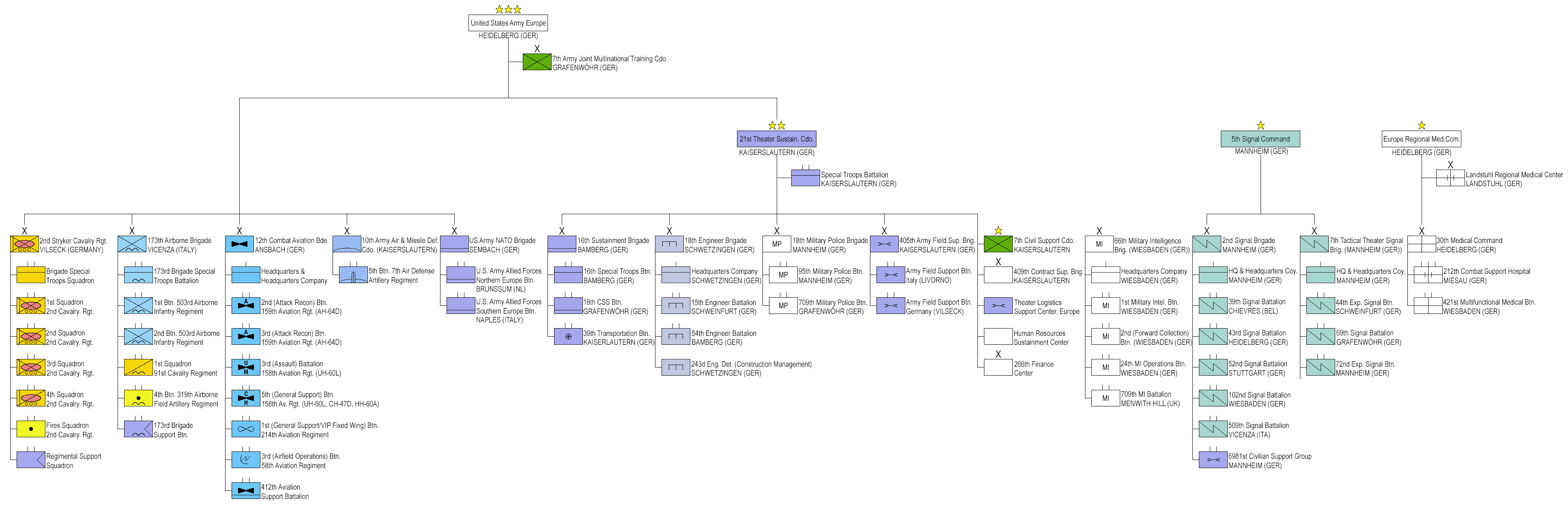 US Army Europe Organization and Units